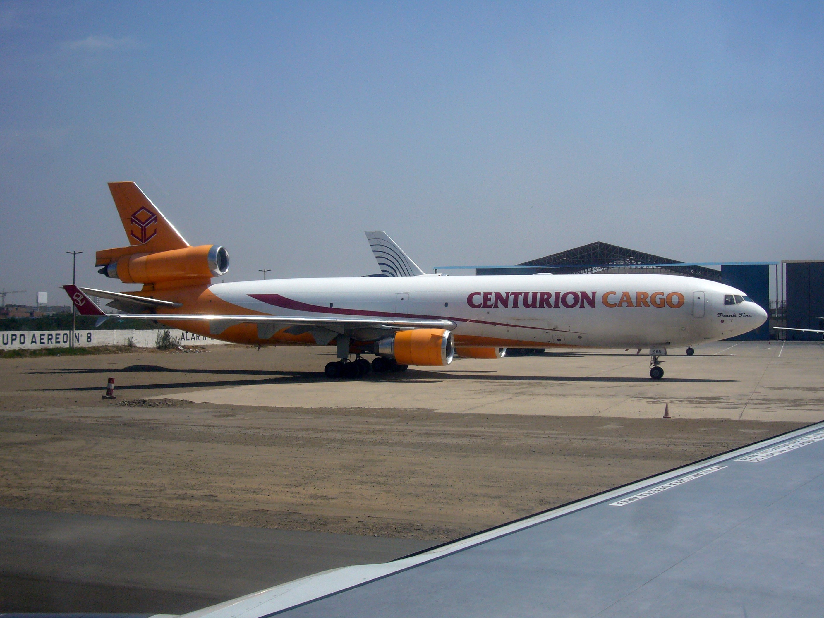 Serial 48430 was delivered to Alitalia as I-DUPU on 17/08/1992. From June 2003 it was stored at Napoli and was back in service in November 2004. In 2005 it was stored awaiting to undergo cargo conversion and returned back in service in April 2006, named Antonio Vivaldi. From January 2009 it was stored until October 23rd, when it went to Centurion Air Cargo as N985AR. It finished flying in April 2015 and was scrapped in August 2015.